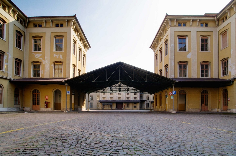 Offices of COSBI. Founded in 2005, COSBI (acronym of Computational Systems Biology) is a limited liability no profit consortium 50% Microsoft Research and 50% University of Trento. From July 2011 COSBI moved to the new premises in the former Manifattura Tabacchi, in the outskirt of Rovereto.